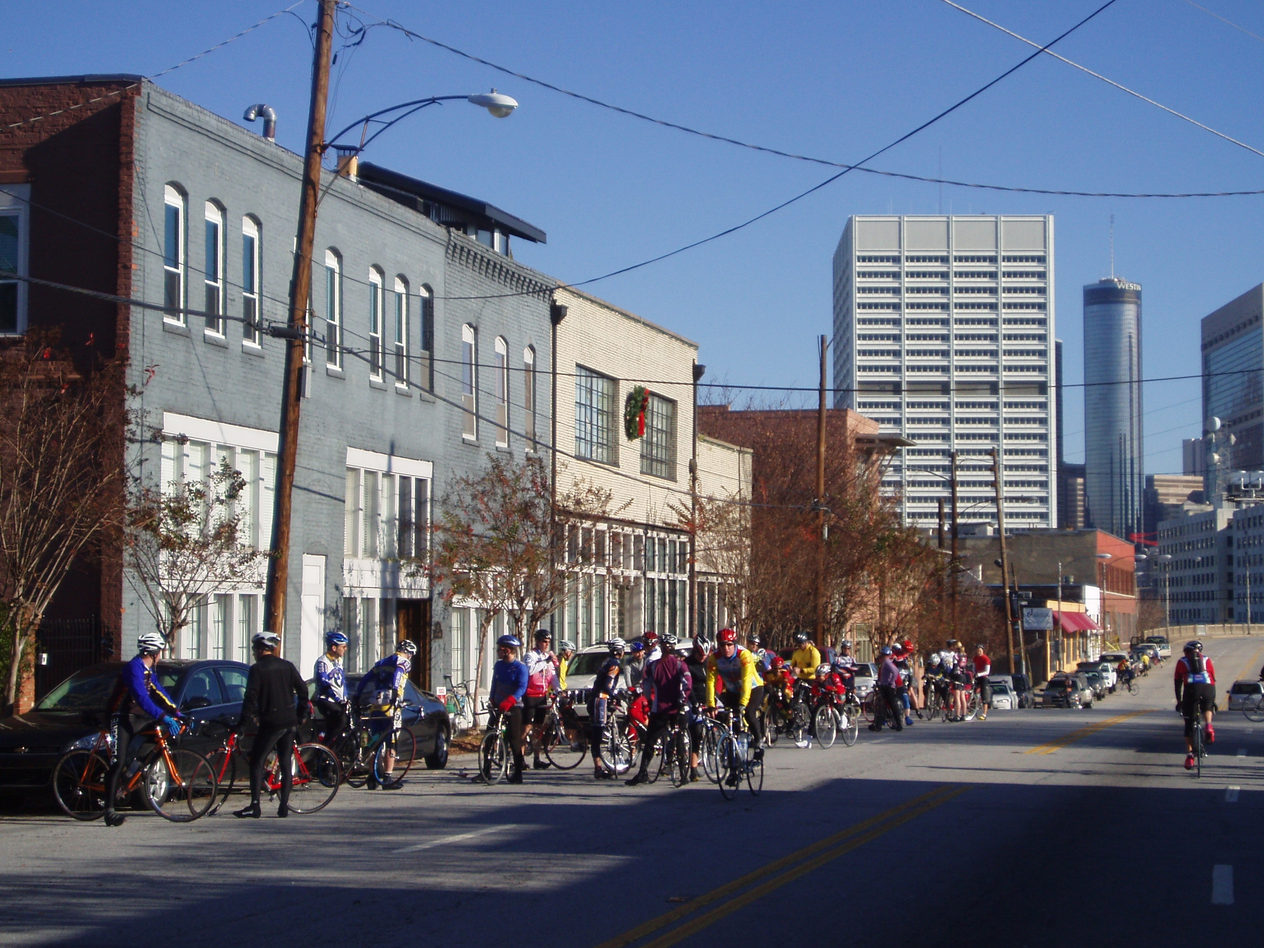 Gathering at Castleberry Hill.